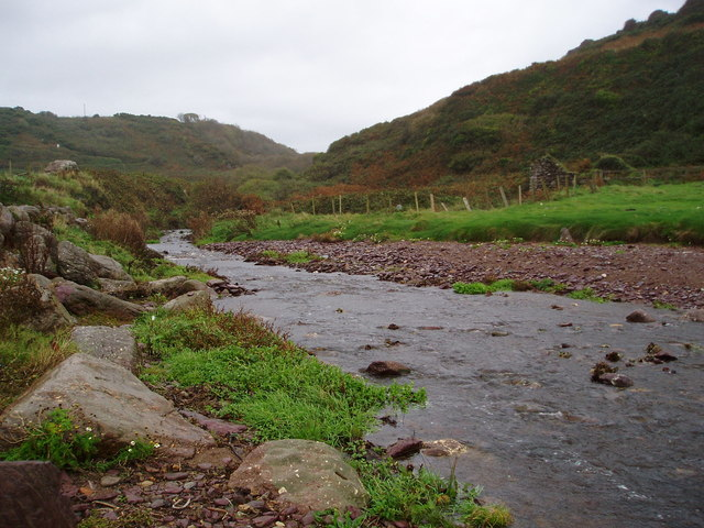 Gleann Baile Mhic Airt.